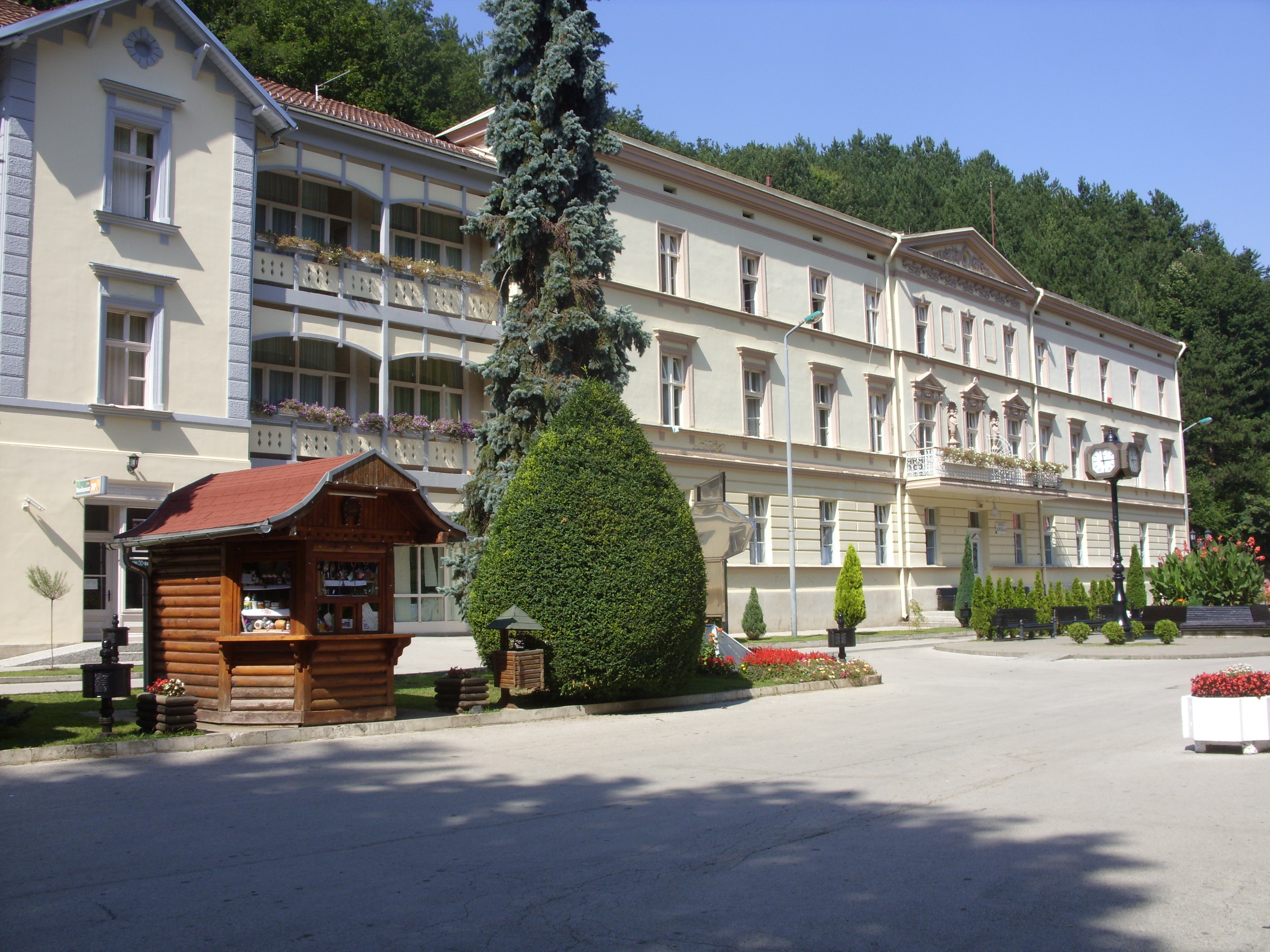 Ribaska Banja spa, municipality of Krusevac, Serbia